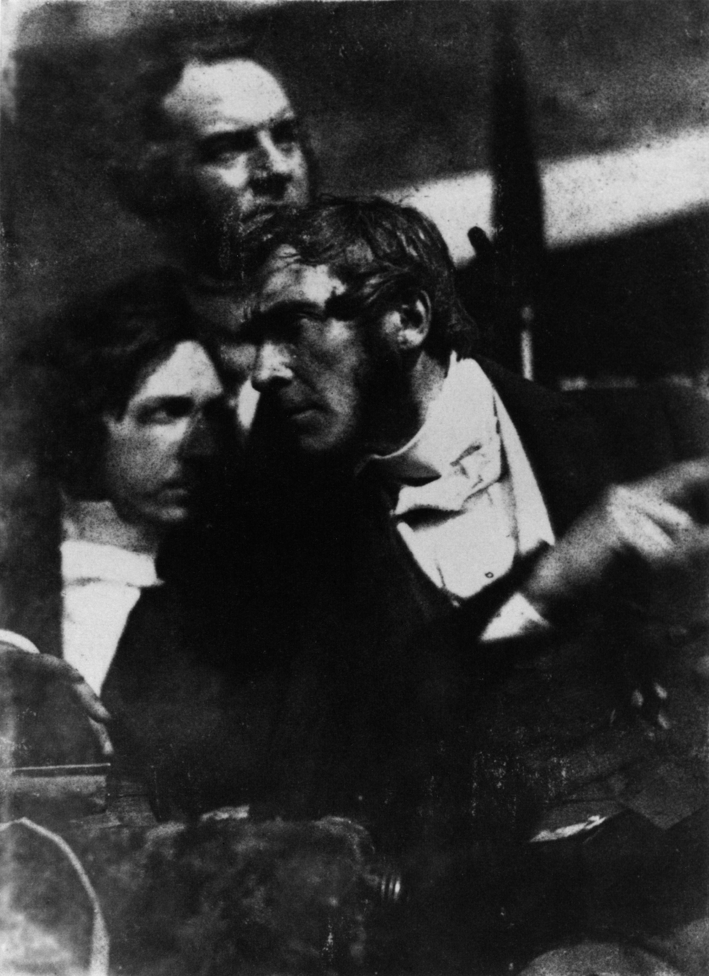 Graham Fyvie, Robert Cadell and Robert Cunningham Graham Spiers (front), given to the National Portrait Gallery, London in 1973. All images in this batch have been confirmed as author died before 1939 according to the official death date listed by the NPG.